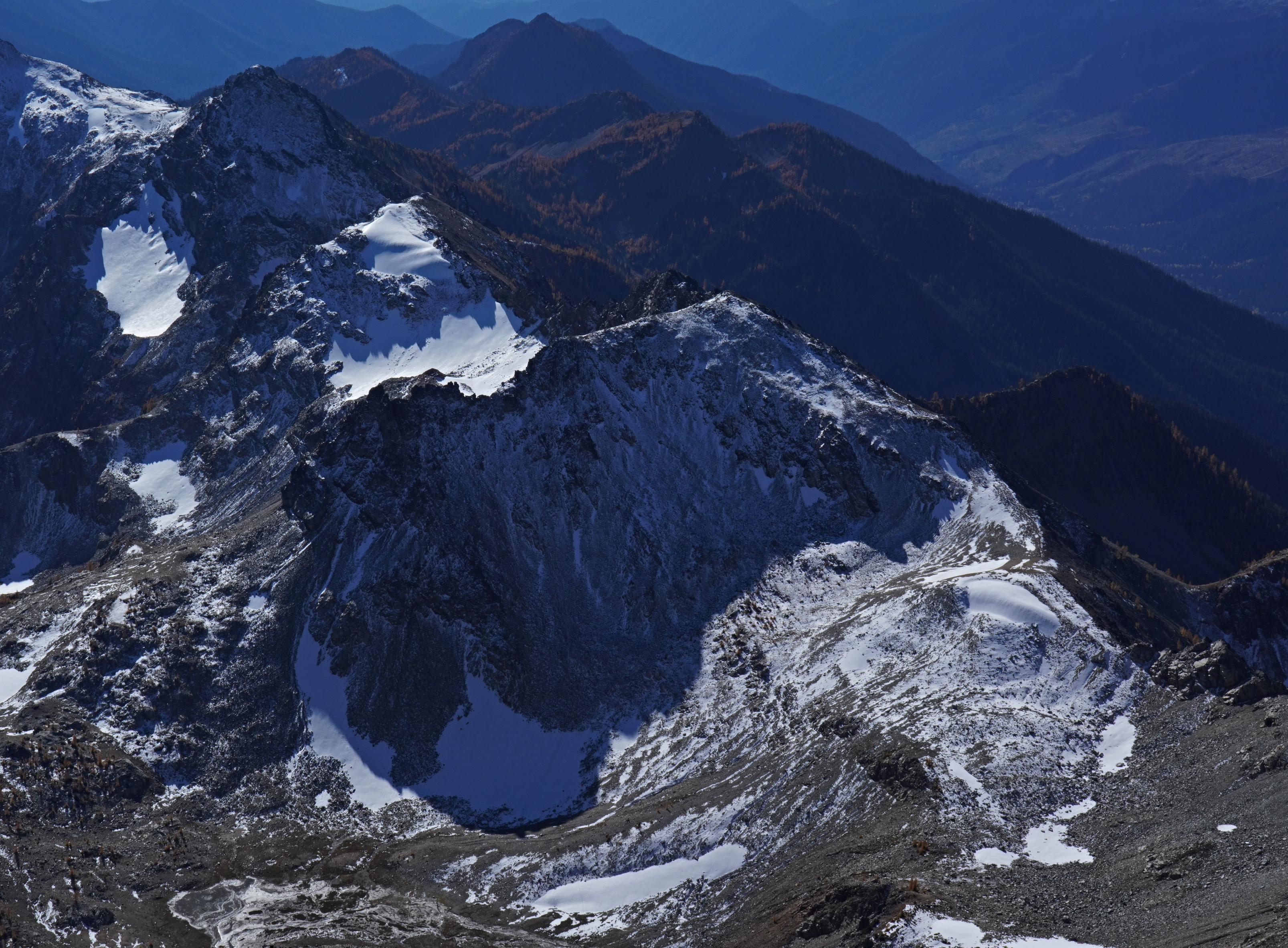 Looking back down from Mount Maude on Freezer and Ice Box.